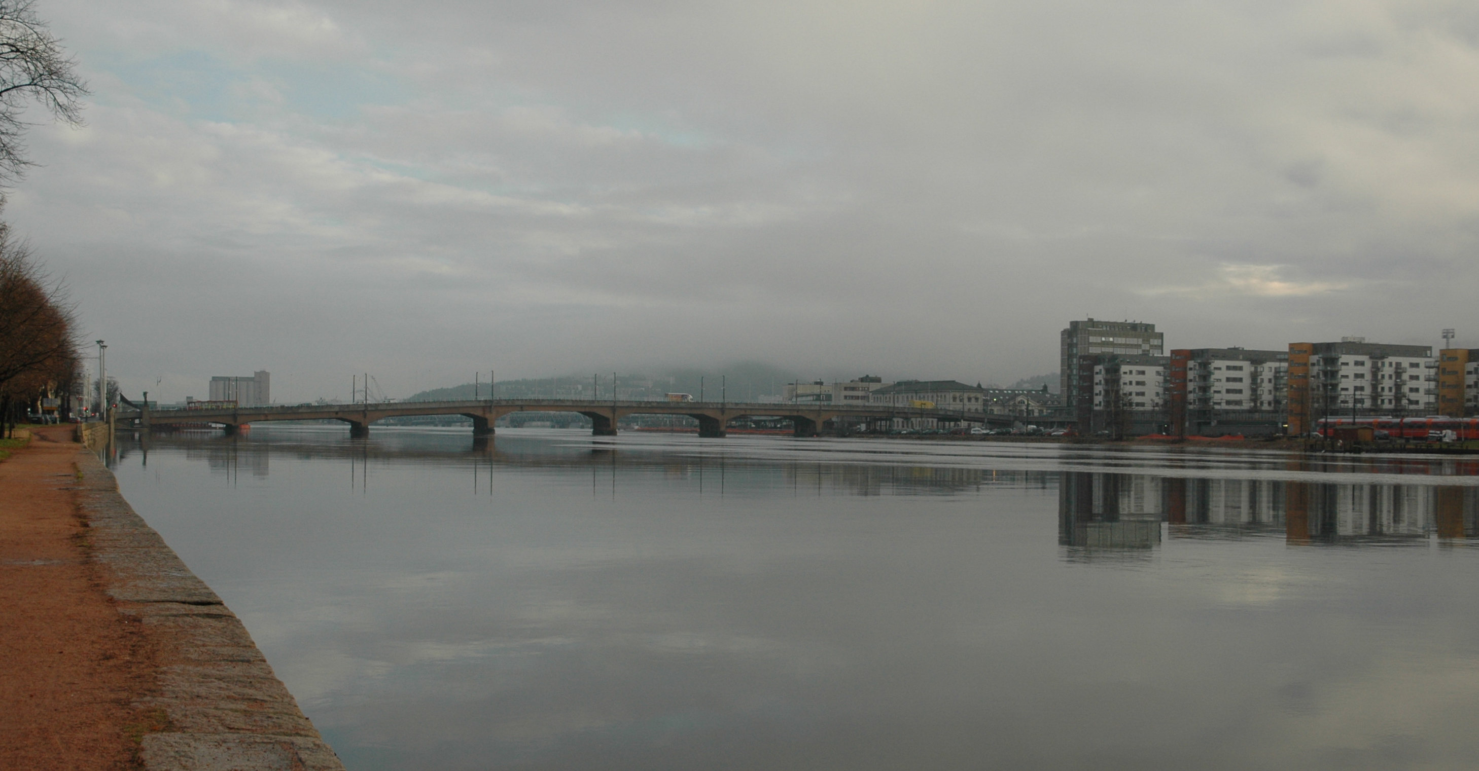 The city bridge in Drammen